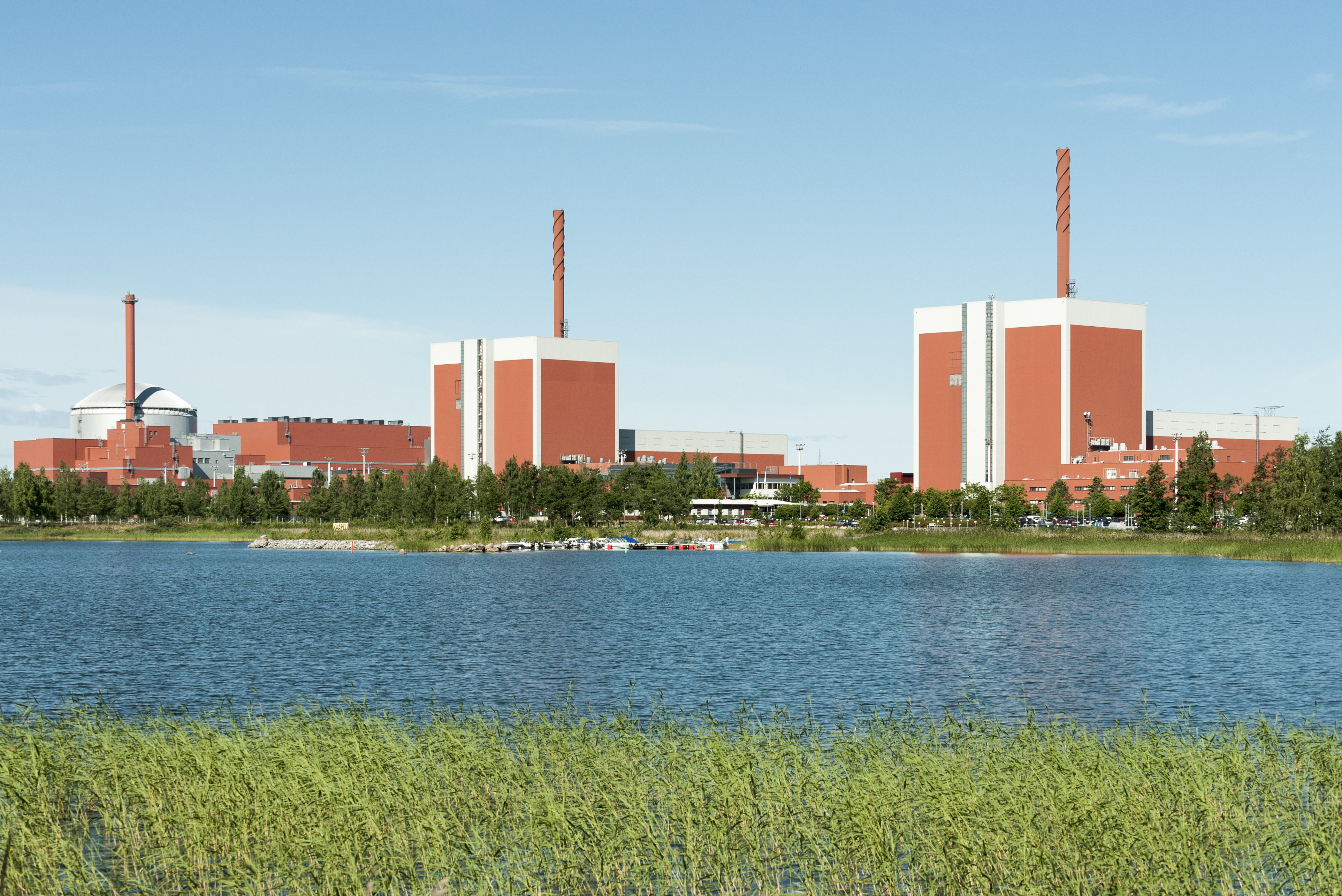 The three reactors of Olkiluoto Nuclear Power Plant in Eurajoki, Finland.